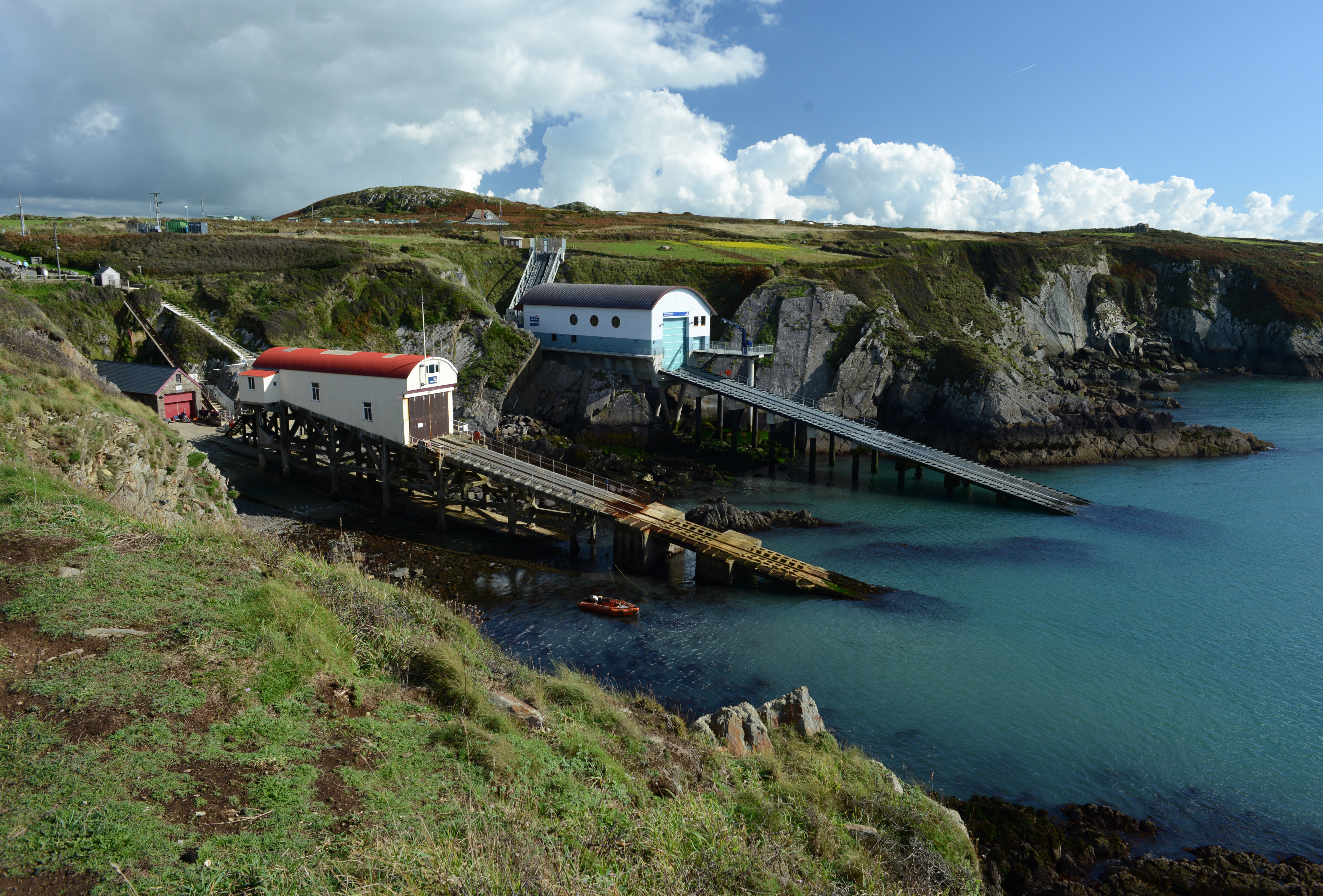 Three boathouses shown in October 2016